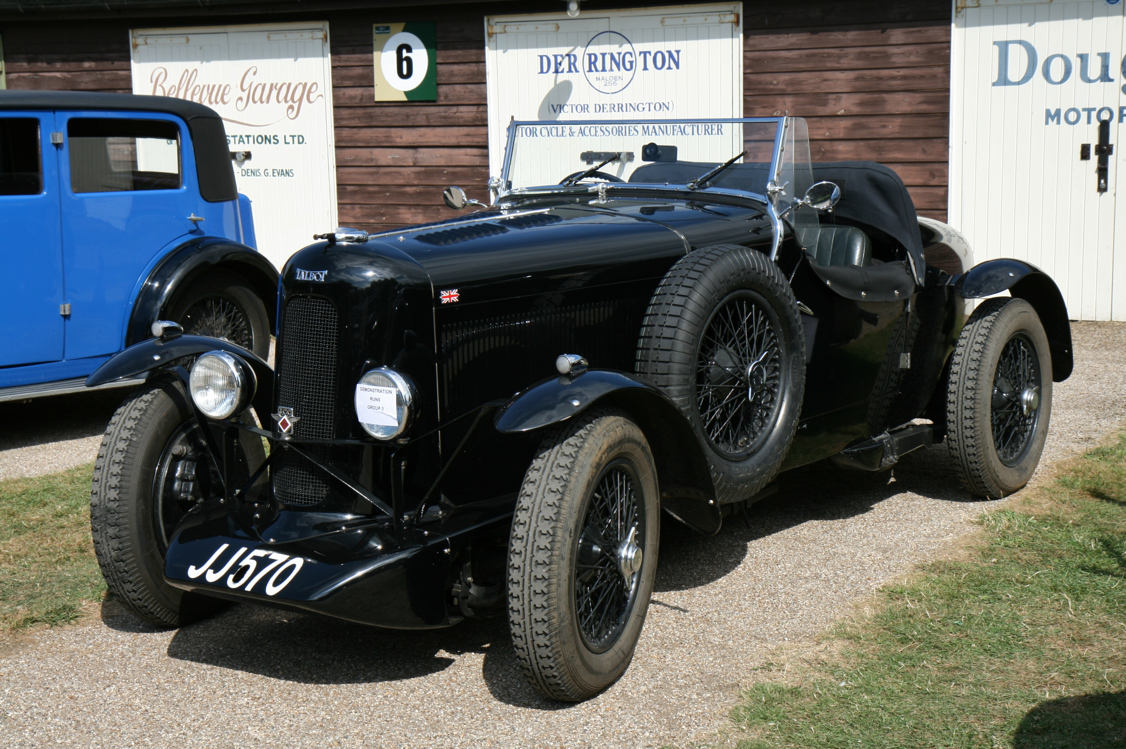 1937 Talbot 95/105 Brooklands Special (DVLA) manufactured 1933 2972 cc Brooklands Reunion 14 August 2016